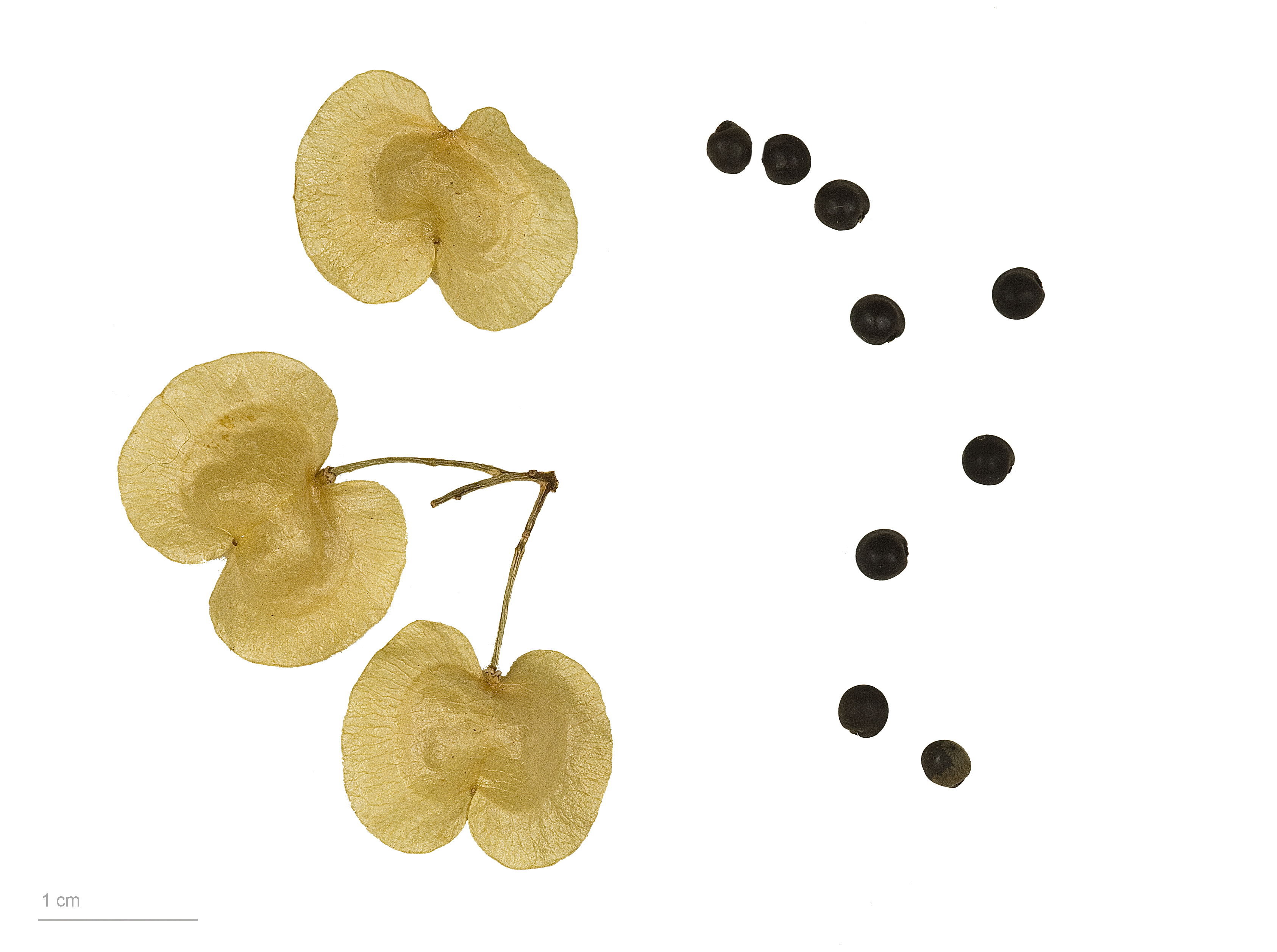 hopbush, fruits and seeds